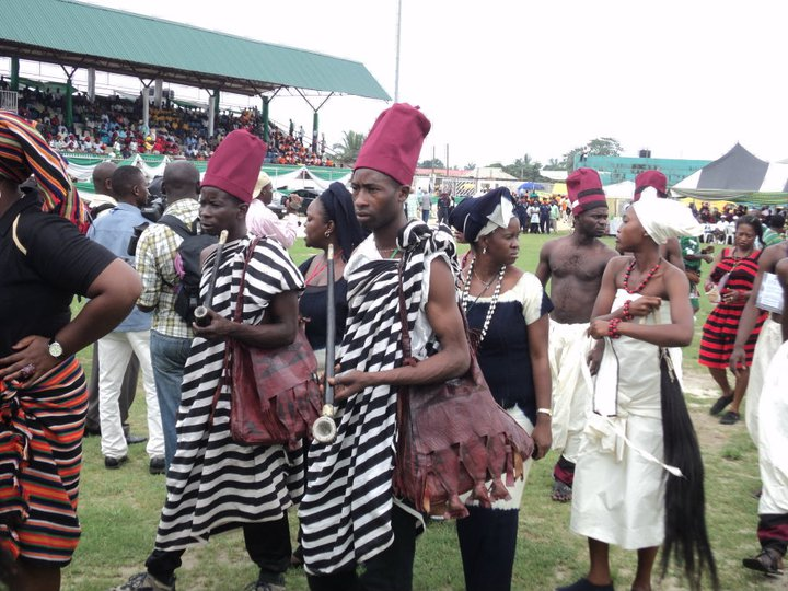 Pictures from the closing ceremony of National Festival of Arts and Culture (NAFEST) 2010 in Uyo, Akwa Ibom state Nigeria. This is an image of Cultural Fashion or Adornment from Nigeria